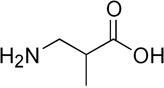 Chemical structure of 3-aminoisobutyric acid